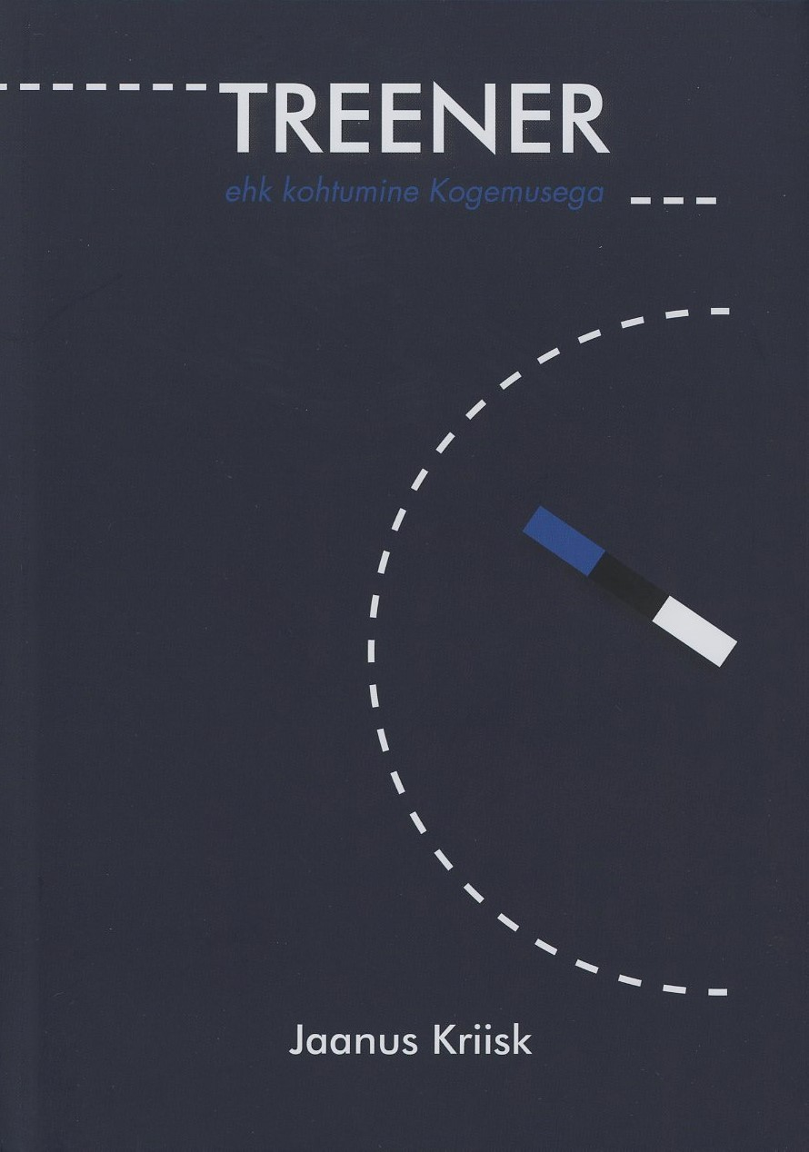 "Treener ehk kohtumine kogemusega" kaanepilt